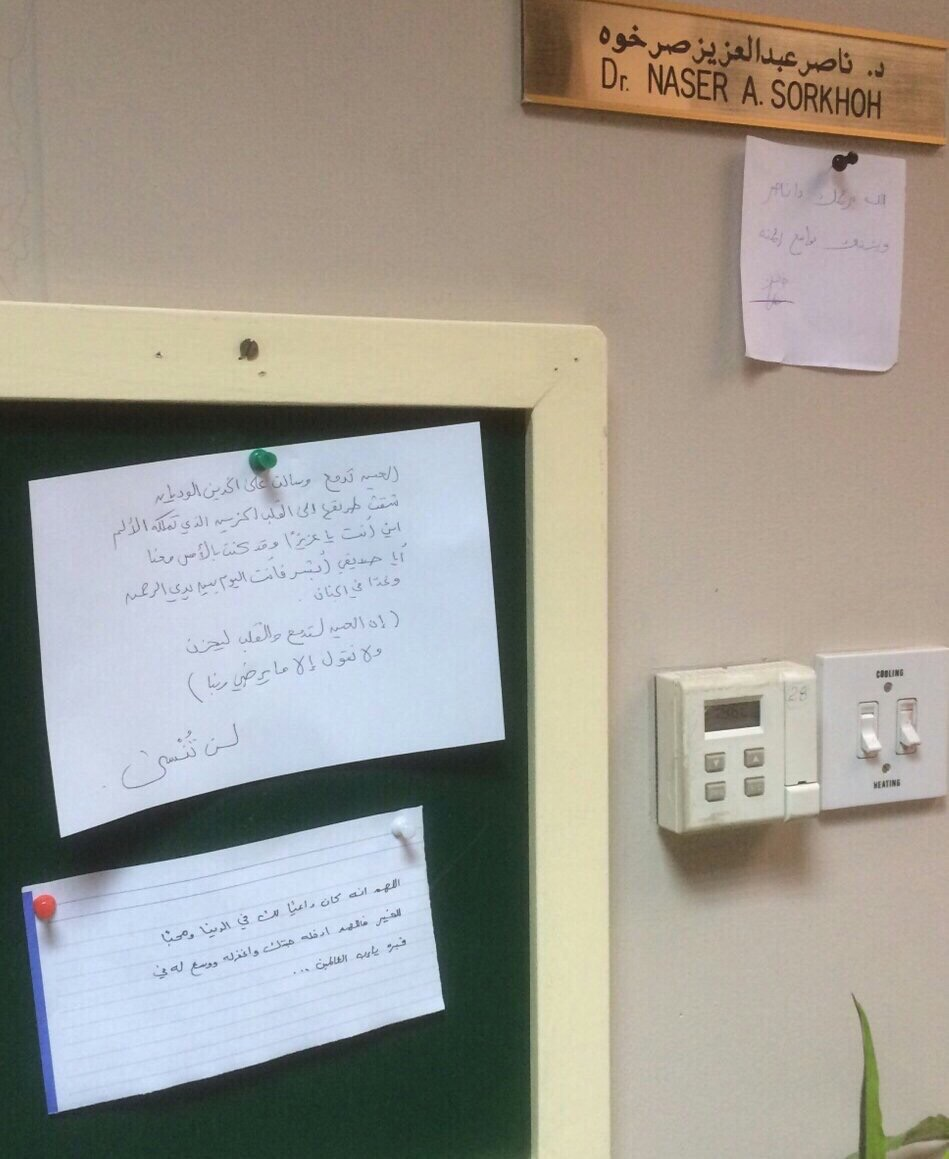 Students Condolences to Dr.Nasser Office in Kuwait university